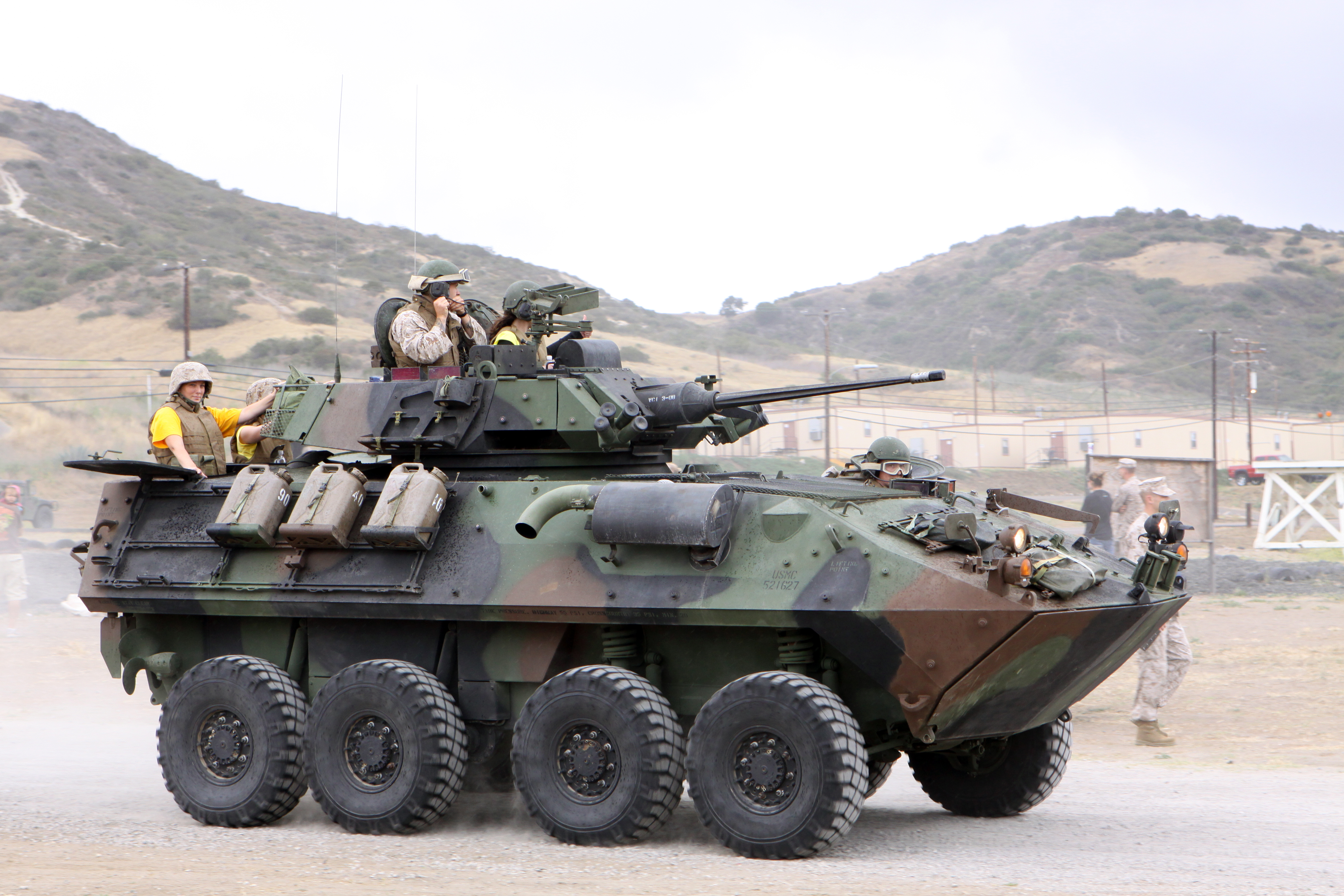 A Light Armored Vehicle (LAV) at the School of Infantry West Jane Wayne Day, June 13.